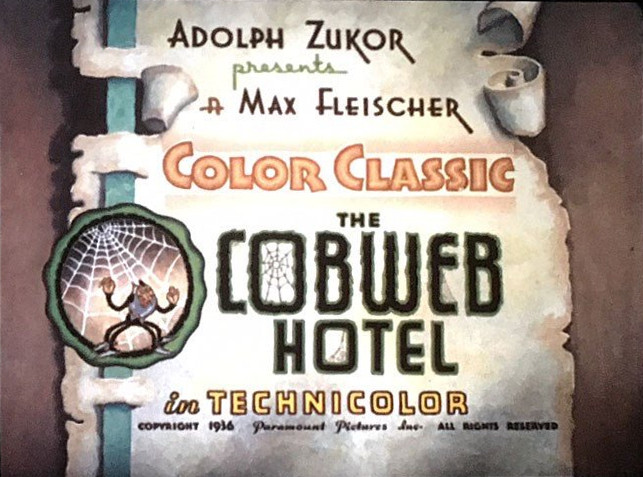 It's for a Wikipedia article only.